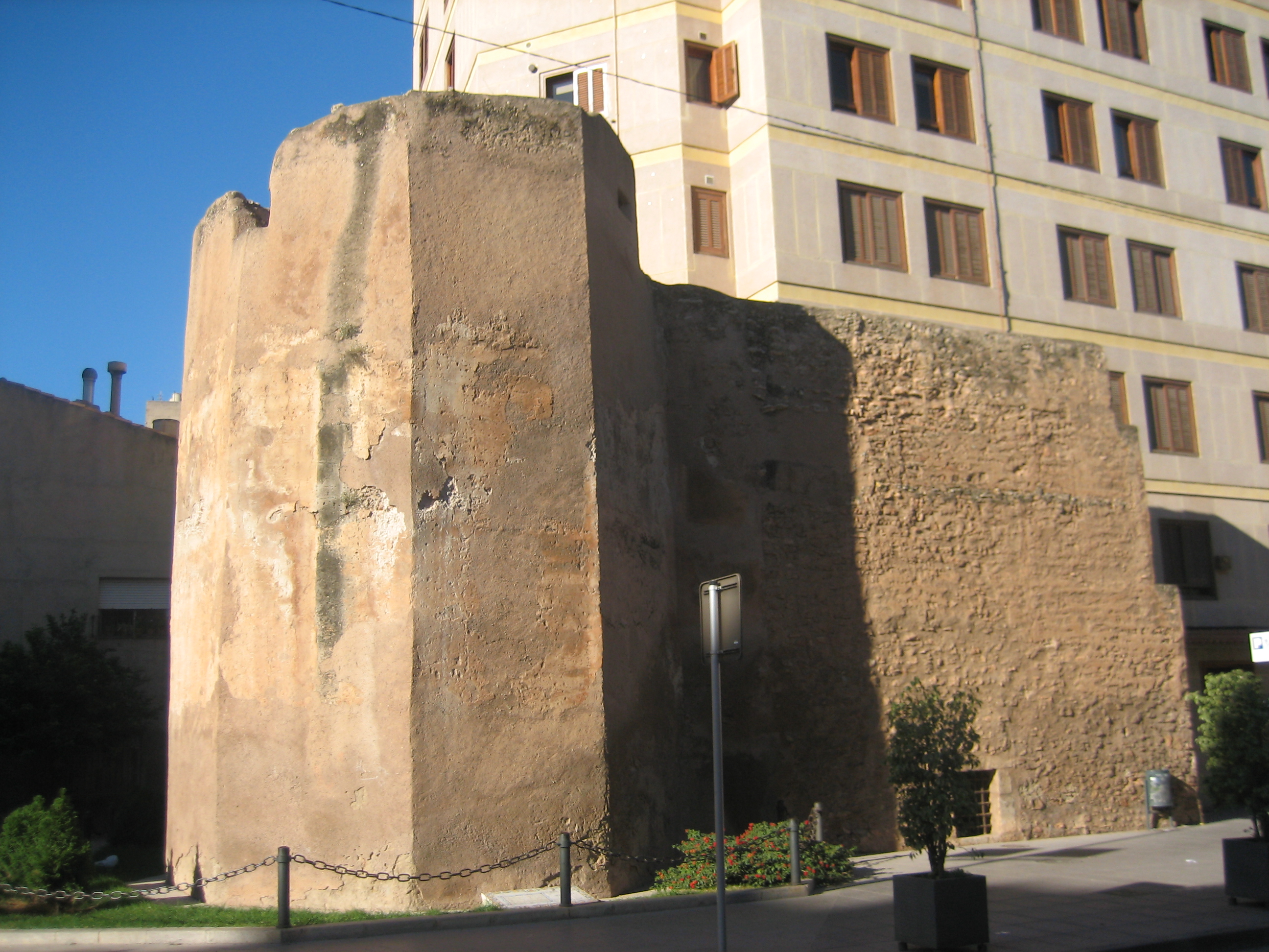 Motxa Tower. Tower from middle ages in Vila-real, Castellón, Spain.